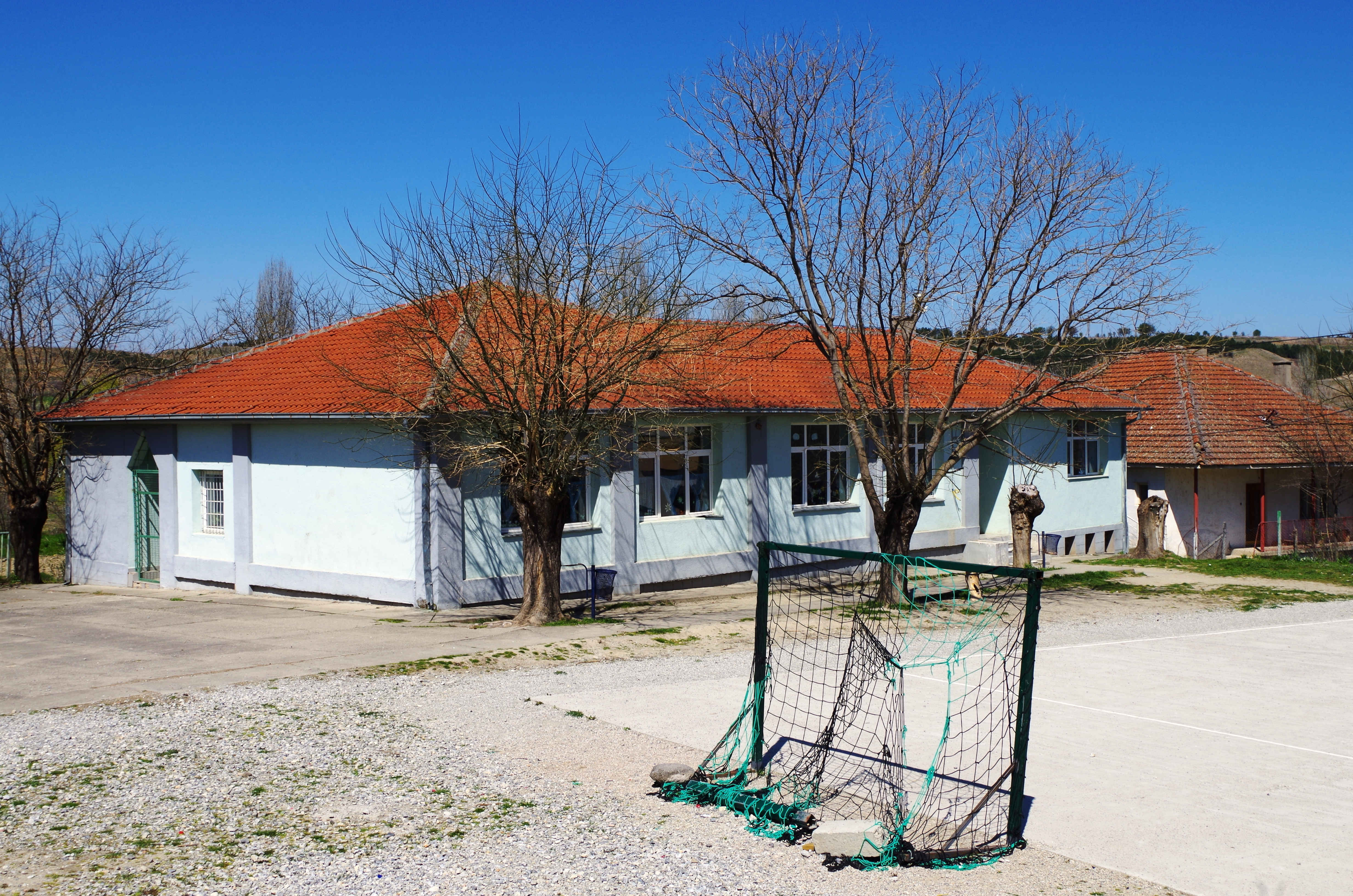 Primary school in Tremnik, Negotino Municipality